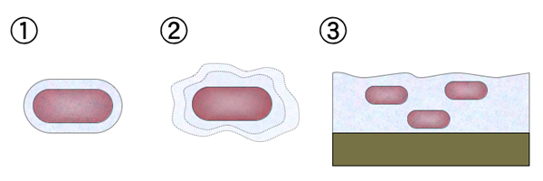 Diagram of bacterial mucoid-like structures. capsule slime layer biofilm